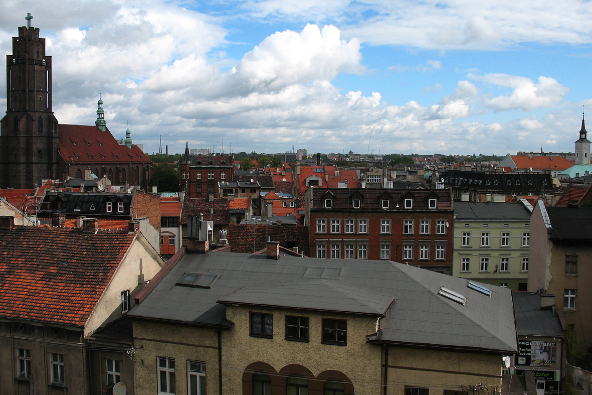 Old town in Gliwice seen from the assembly hall on the highest floor of the 5th High School.